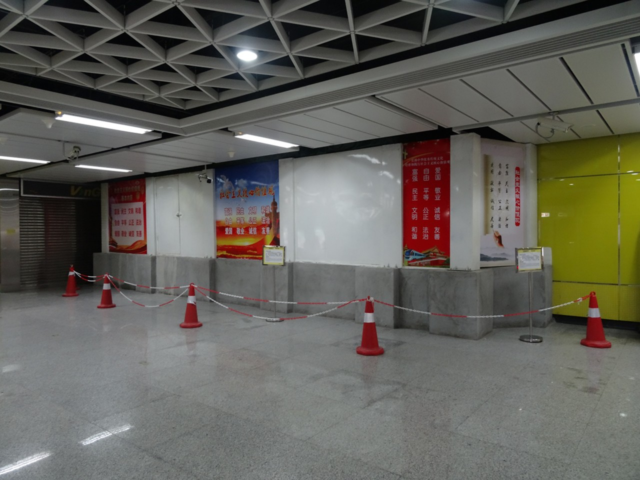 站廳靠近便利店附近正在進行21號綫施工